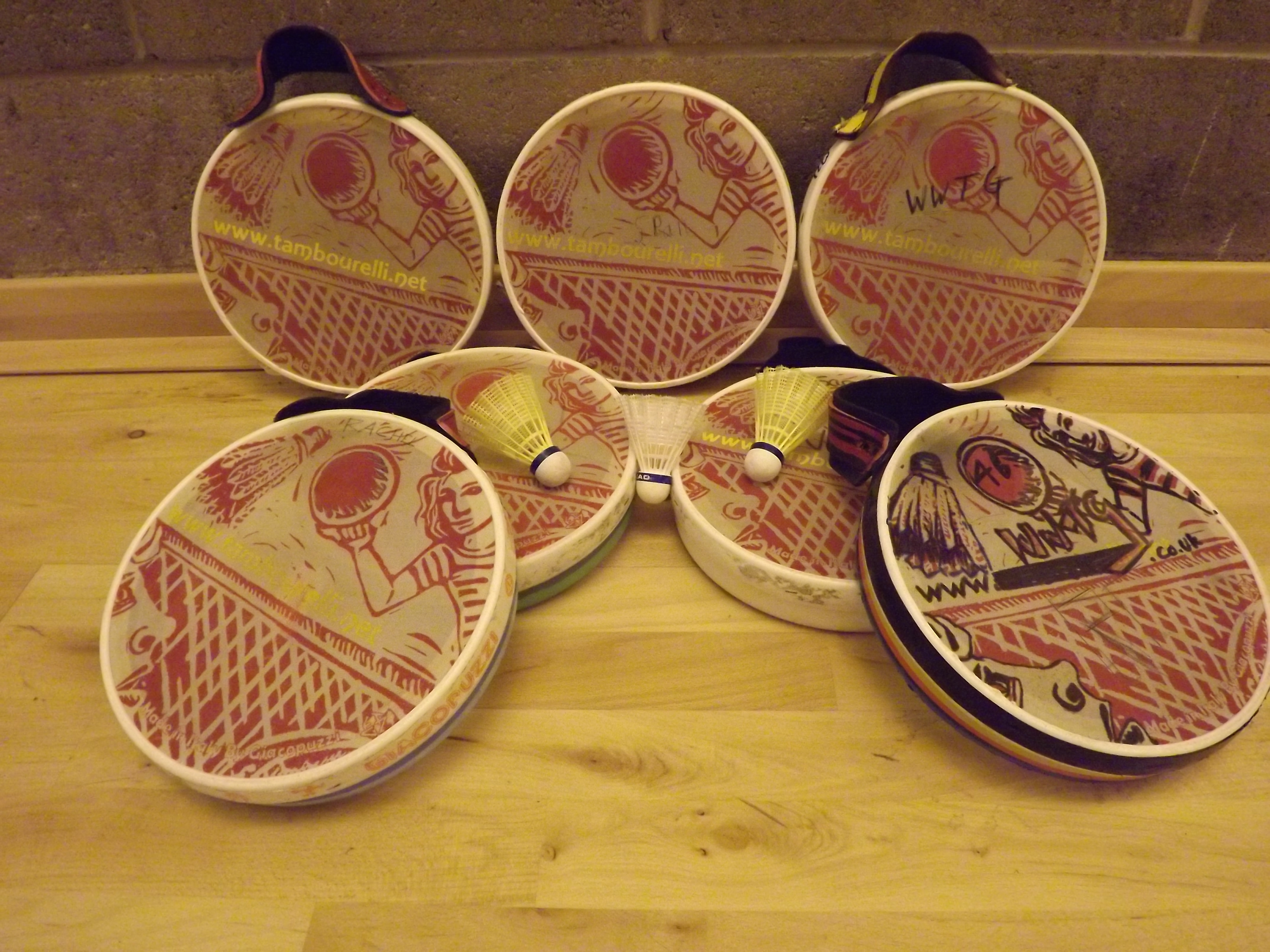 Photograph of several tambourelli bats.